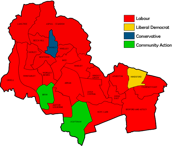 Wigan ward map with political colouring.